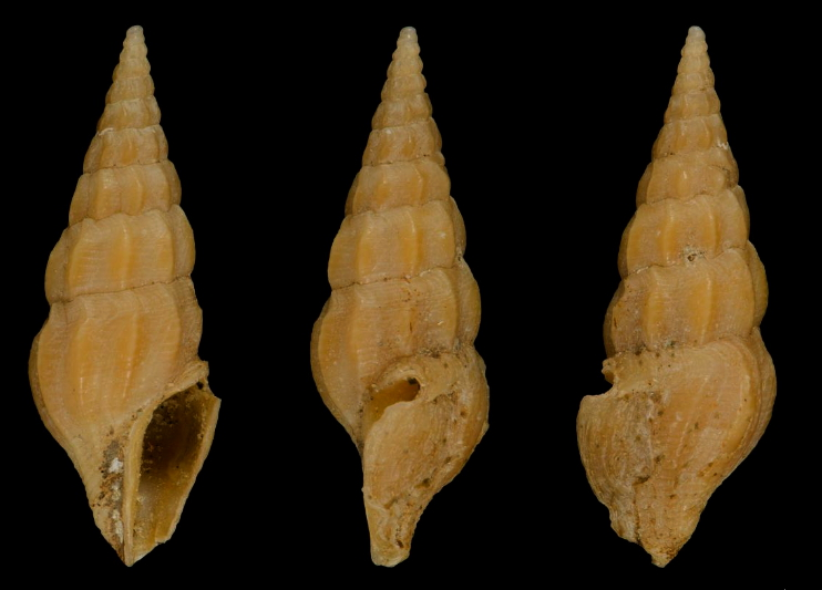 Clathrodrillia wolfei (Tippett, 1995); family Drilliidae; holotype at the Smithsonian Institution